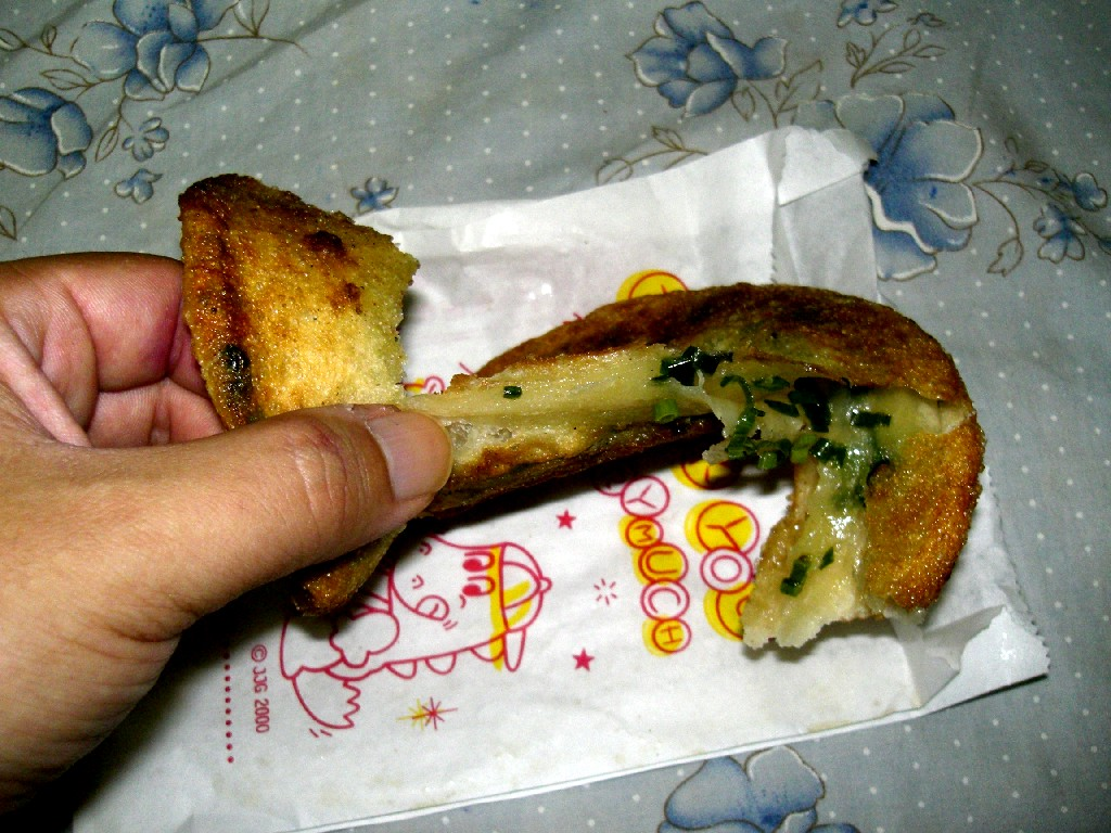 Green onion pancake internal layer